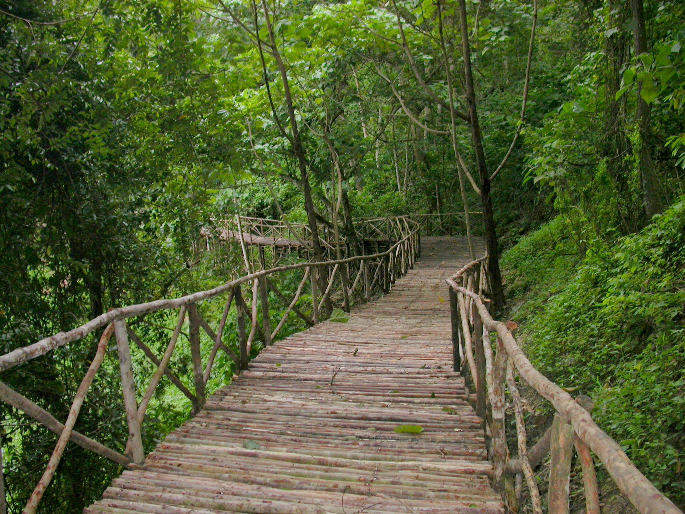 Belum Rainforest Resort Outdoor Walkway in Banding Island, Perak, Malaysia. Leads to the Orang Asli village next to the hotel.